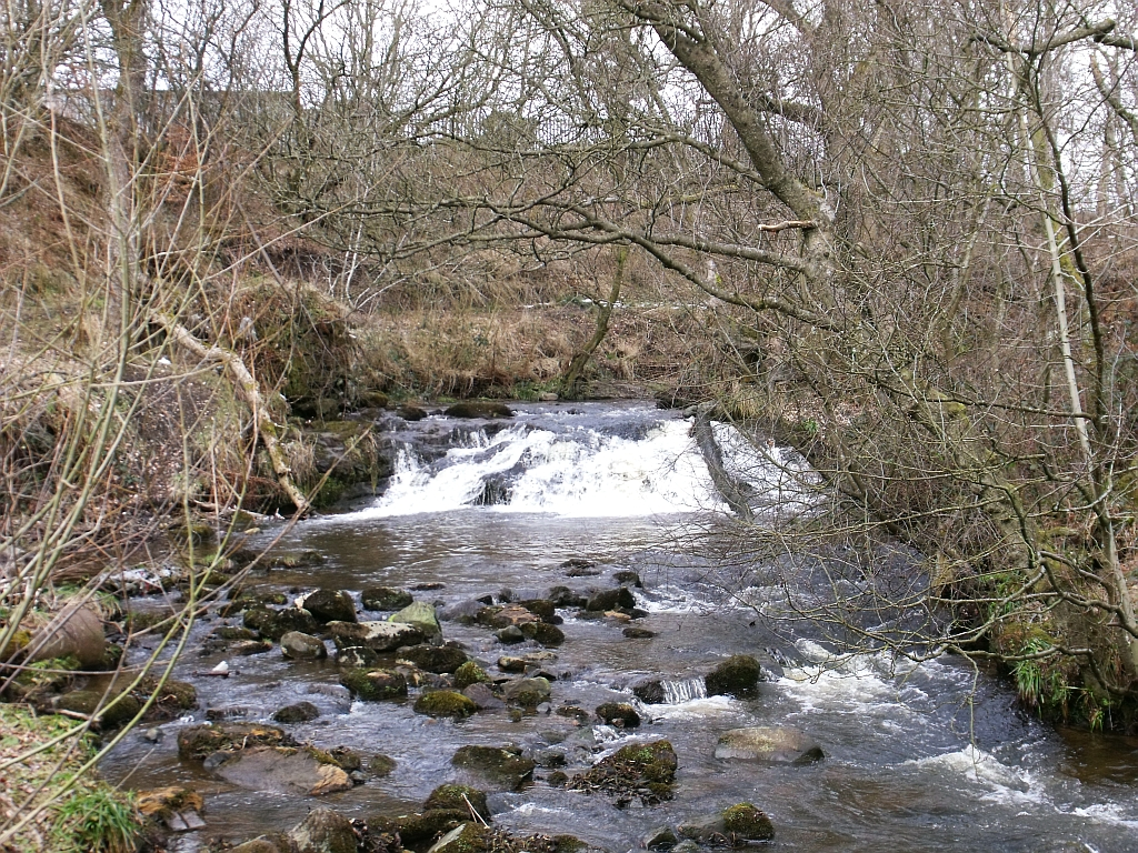 Old weir on the Luggie Which provided a head of water for the lade that supplied the Lenziemill.